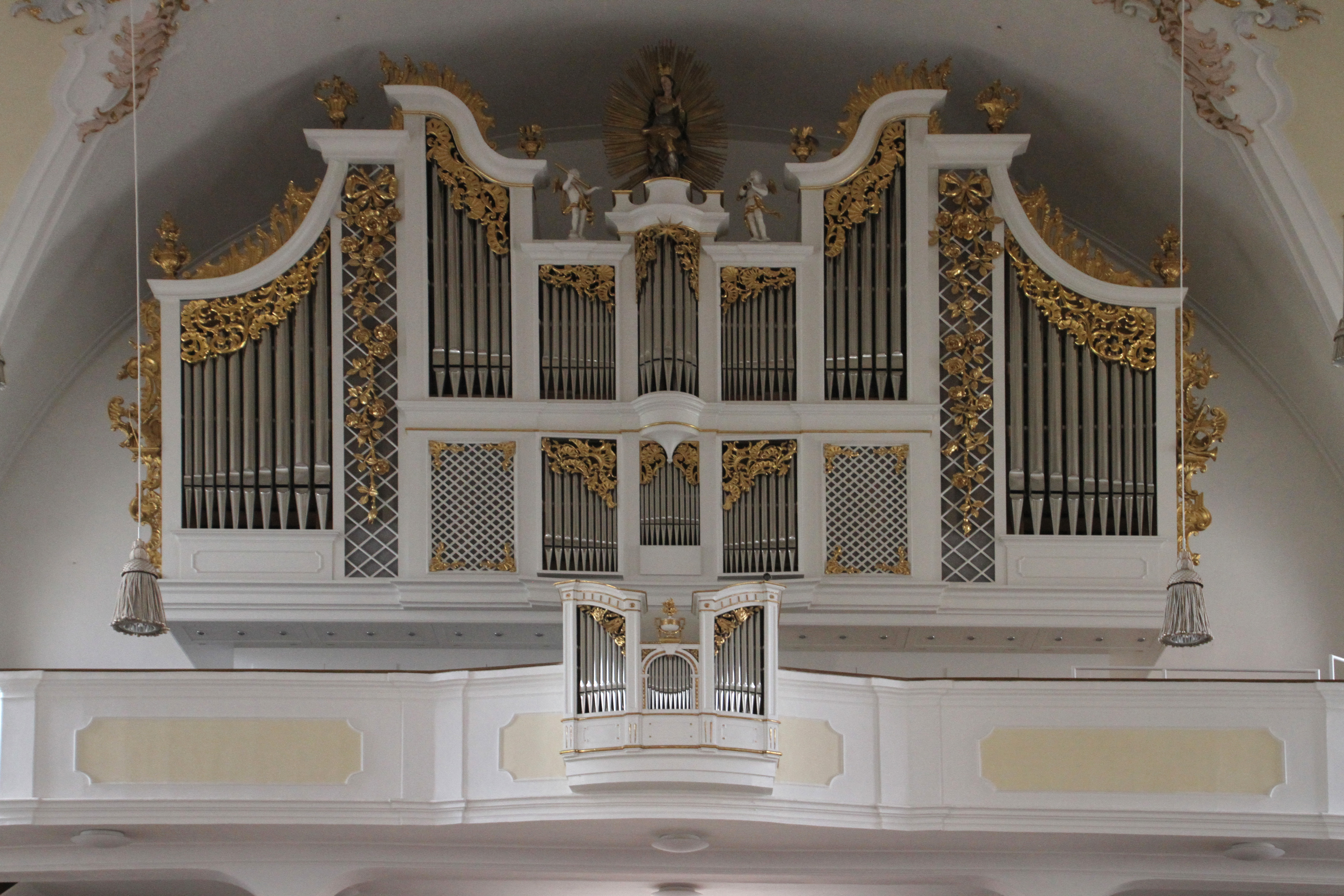 Church of Mariä Himmelfahrt in Schongau near Schongau, interior decoration.